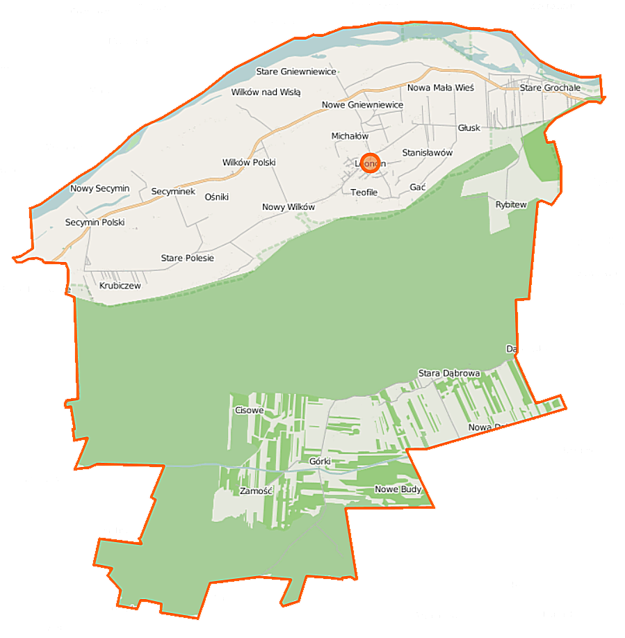 Map of Gmina Leoncin, Poland This map of Leoncin (gmina) was created from OpenStreetMap project data, collected by the community. This map may be incomplete, and may contain errors. Don't rely solely on it for navigation. Border coordinates52.434720.3927←↕→20.639552.2806